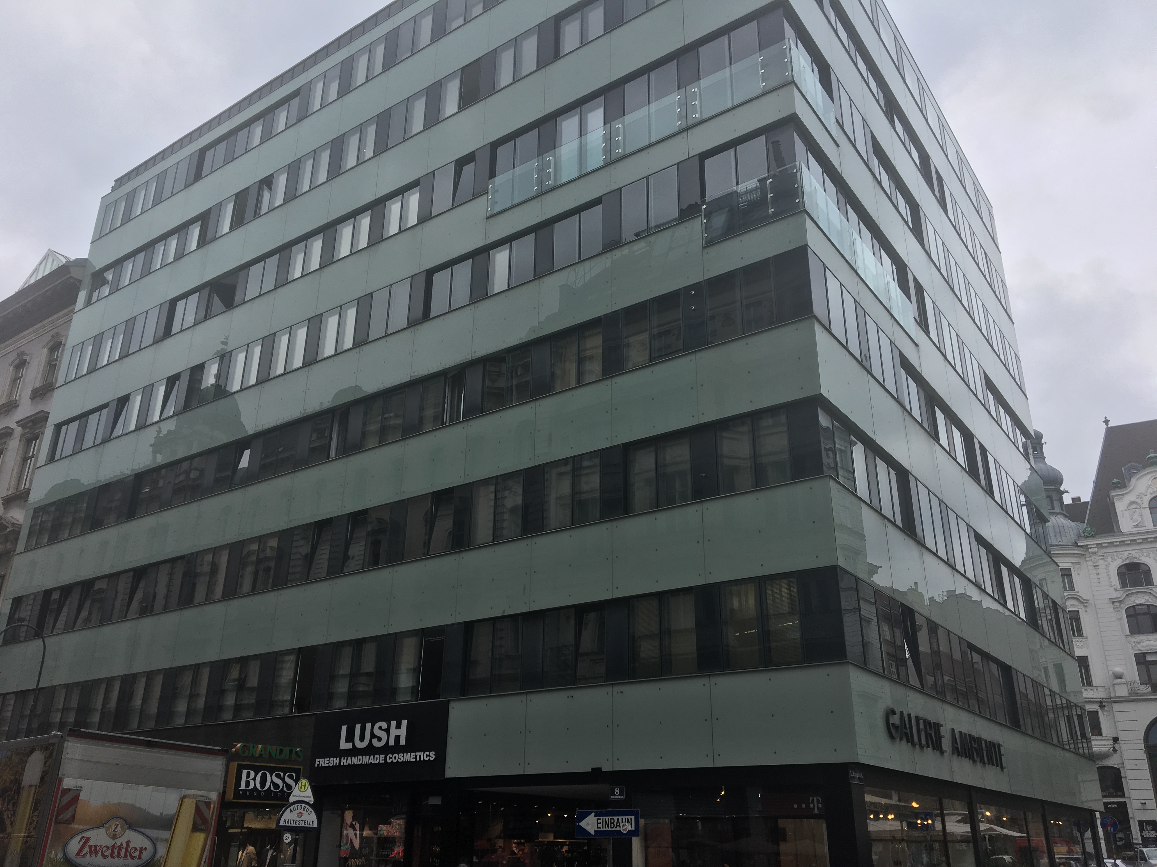 This building has been housing the embassy since 2017.